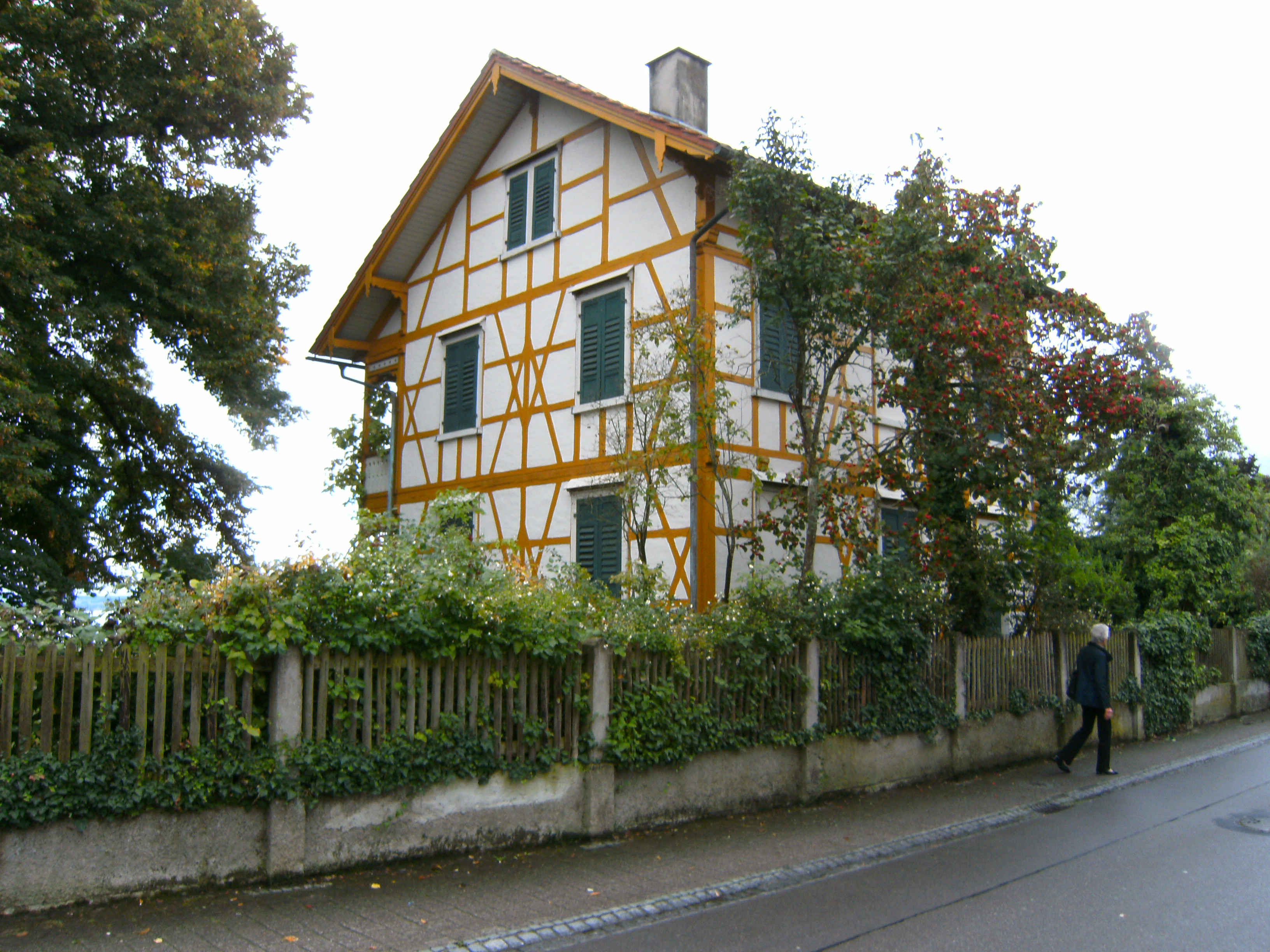 Malerhäusle (painters house) of painter Reinhard Sebastian Zimmermann in Hagnau am Bodensee, Seestraße.